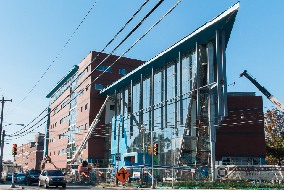 La Salle B school under construction 2